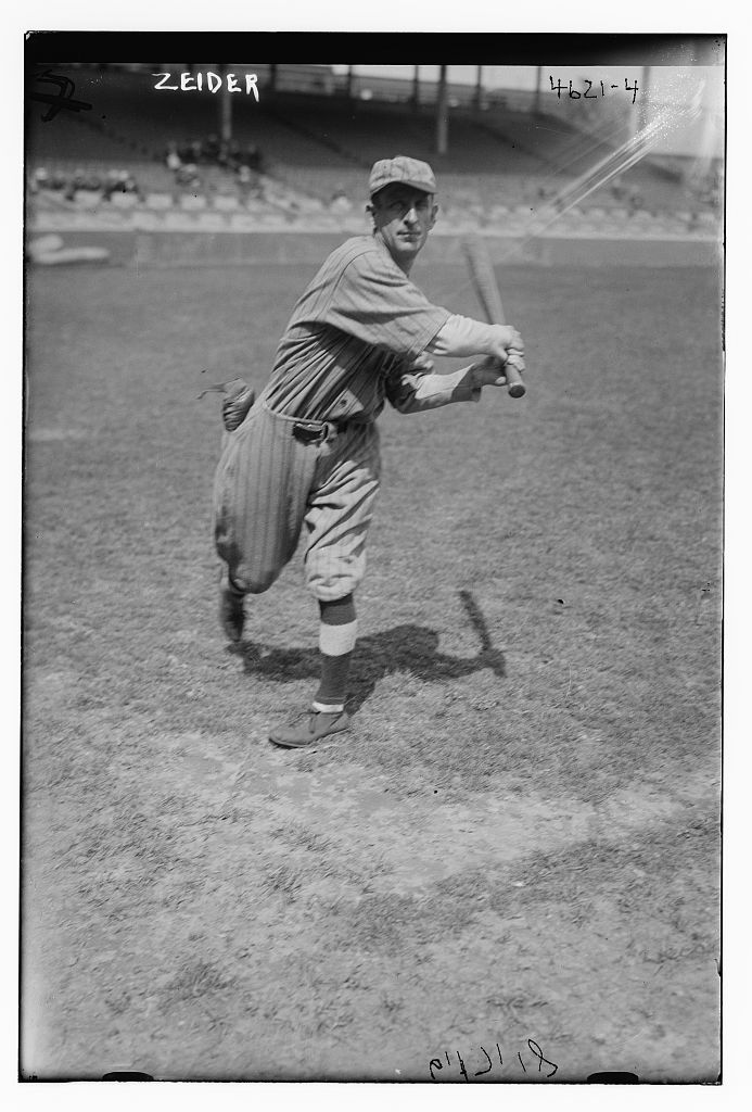 Bain News Service,, publisher. [Rollie Zeider, Chicago NL (baseball)] [1918] 1 negative : glass ; 5 x 7 in. or smaller. Notes: Original data provided by the Bain News Service on the negatives or caption cards: Zeider. Corrected title and date based on research by the Pictorial History Committee, Society for American Baseball Research, 2006. Forms part of: George Grantham Bain Collection (Library of Congress). Format: Glass negatives. Repository: Library of Congress, Prints and Photographs Division, Washington, D.C. 20540 USA, General information about the Bain Collection is available at Higher resolution image is available (Persistent URL): Call Number: LC-B2- 4621-4